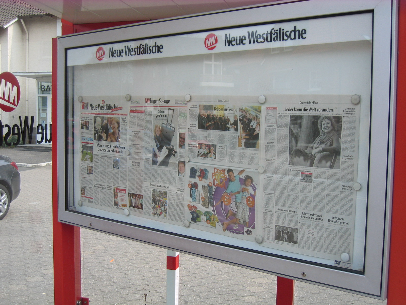 Spenge, District of Herford, North Rhine-Westphalia, Germany.